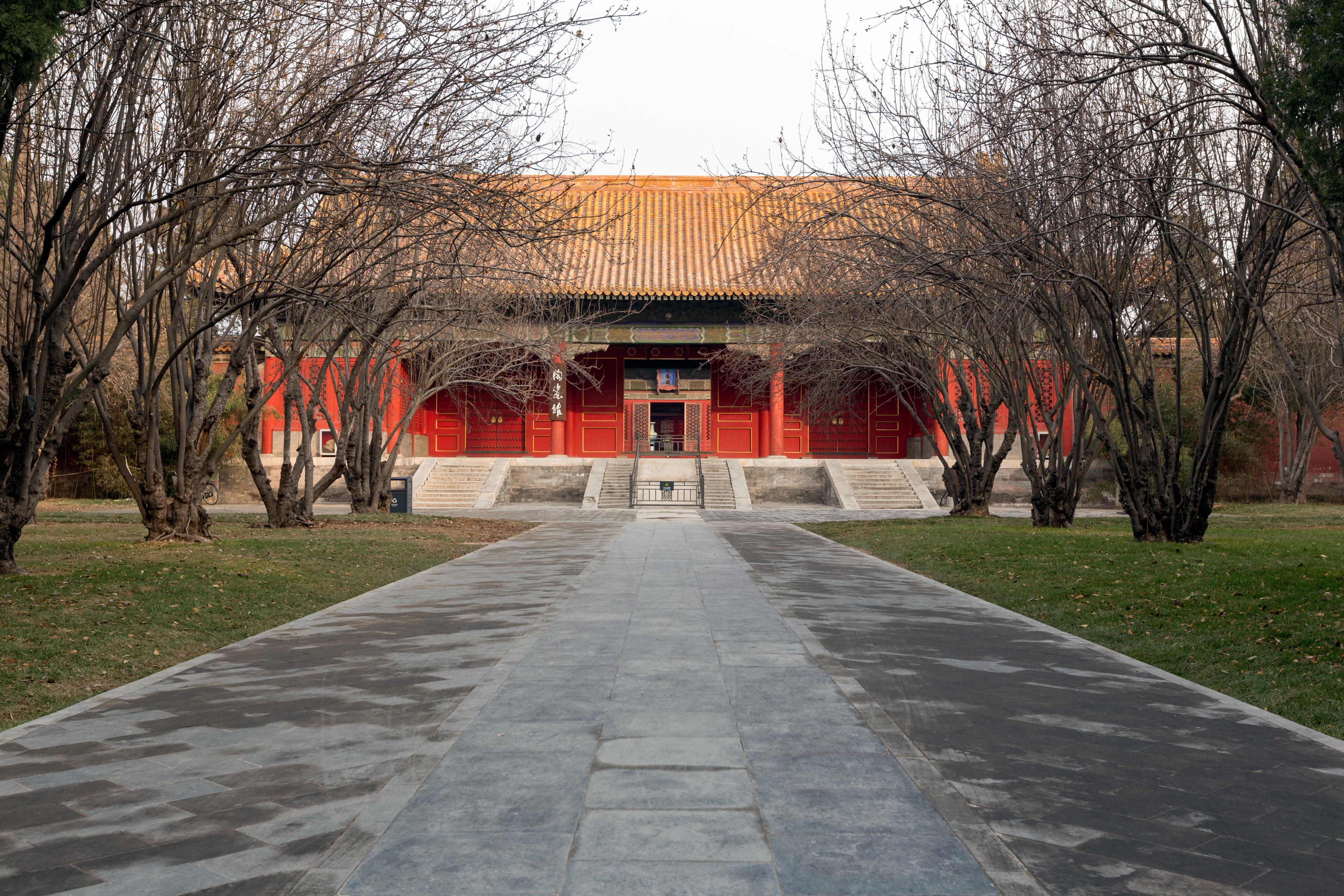 (view N)Gate of Literary Glory (文華門)